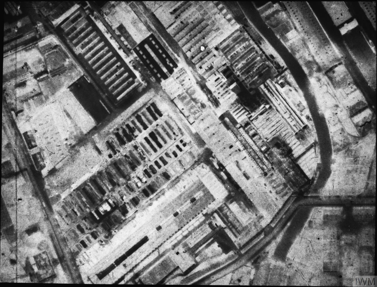 High altitude photo-reconnaissance image of the MAN plant in Augsburg